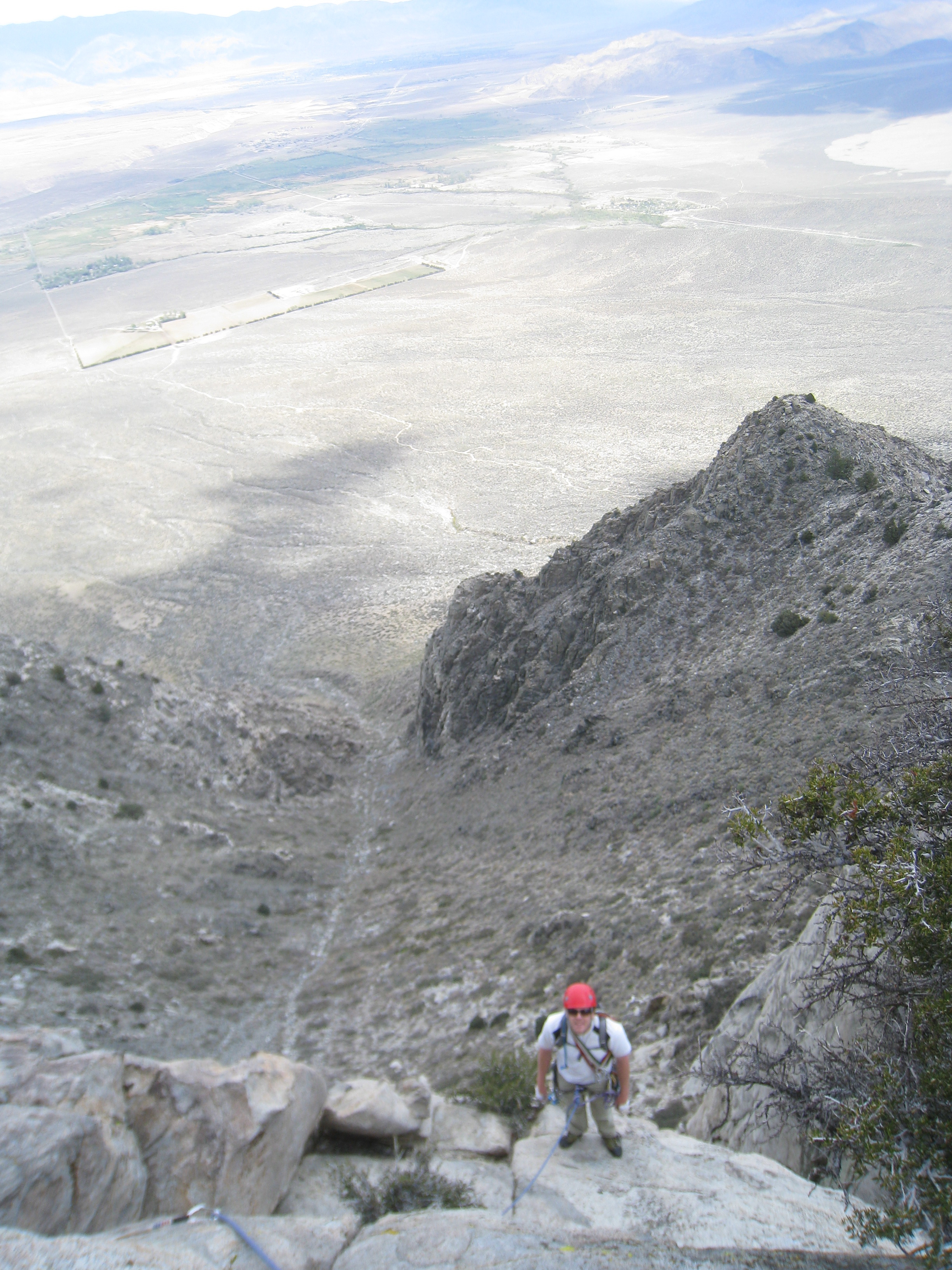 Wheeler Crest (foreground) and Owens Valley (behind). John Muir Wilderness, California